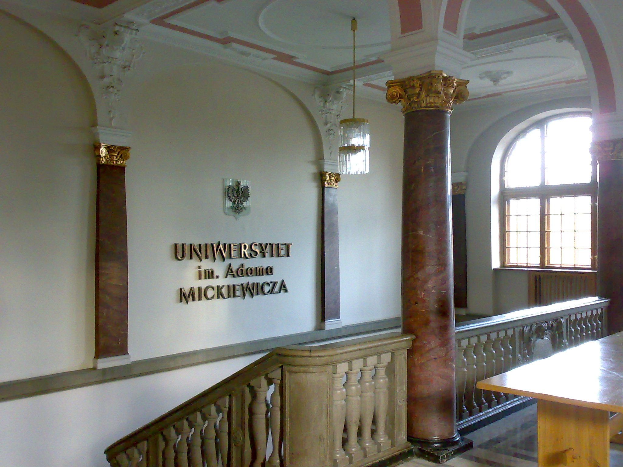 Hall of Collegium Minus. Adam Mickiewicz University - Poznan.